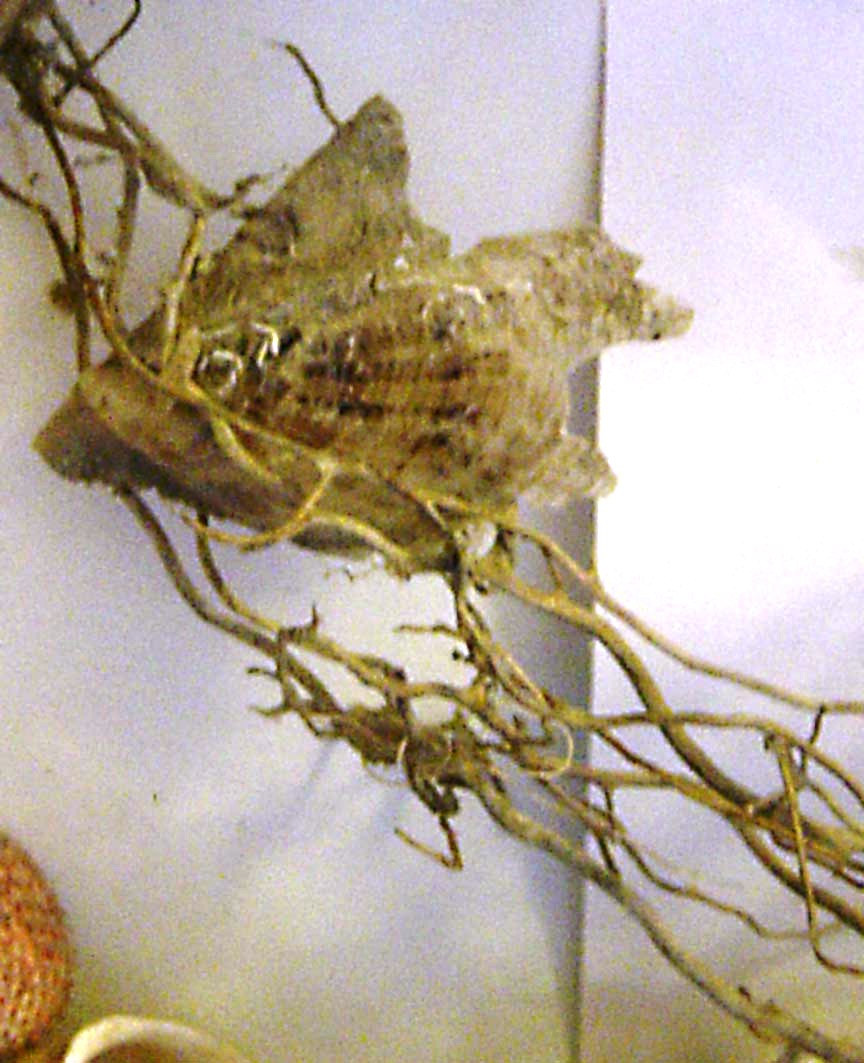 Flügelauster Pteria hirundo in ihrem typischen Lebensraum auf einer Hornkoralle. Selbst fotografiert Die Qualität ist lausig, aber besser als nicht. My own picture of Pteria hirundo in its typical position in the axes of a coral.